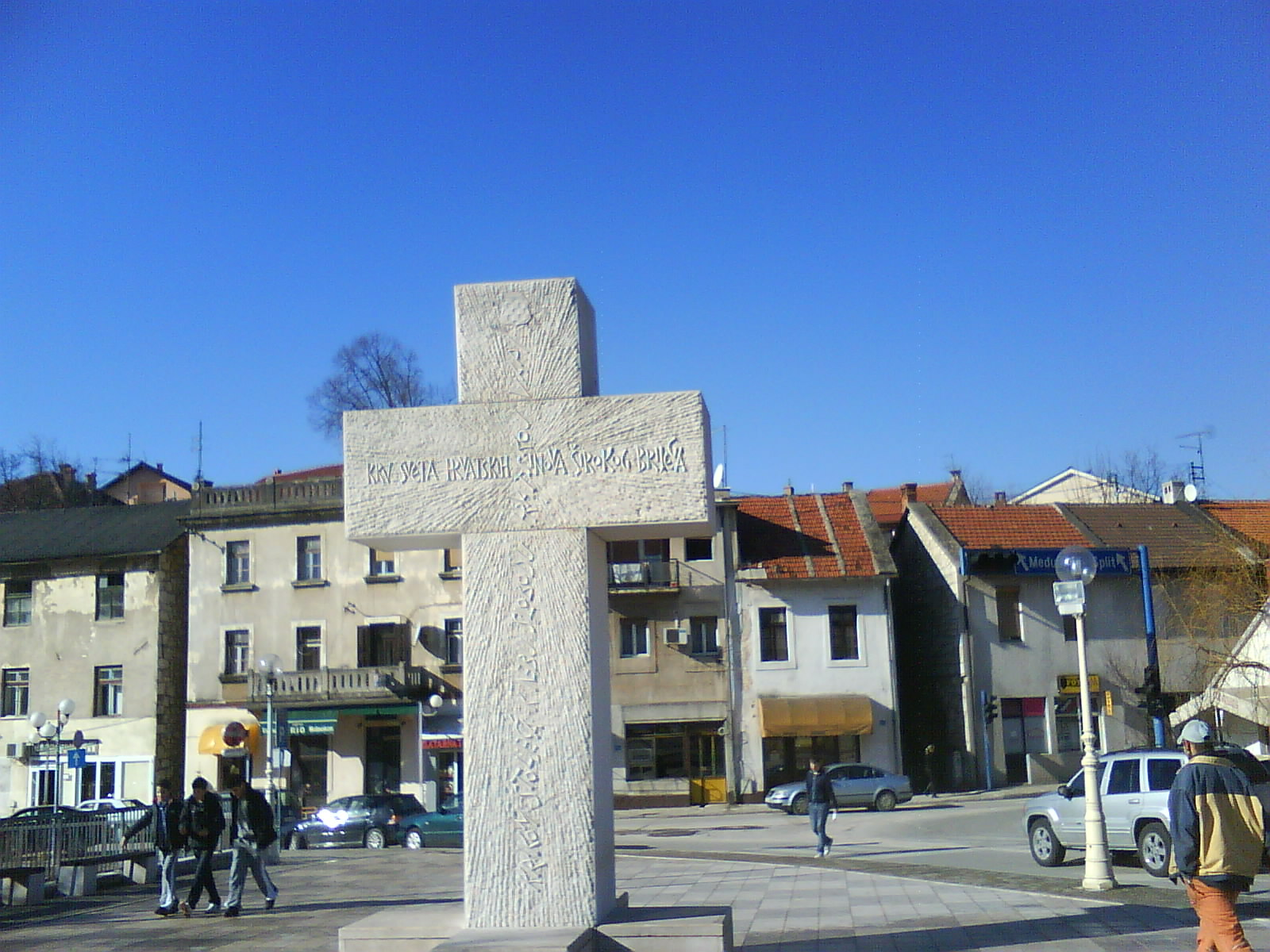 Cross in downtown of Široki Brig